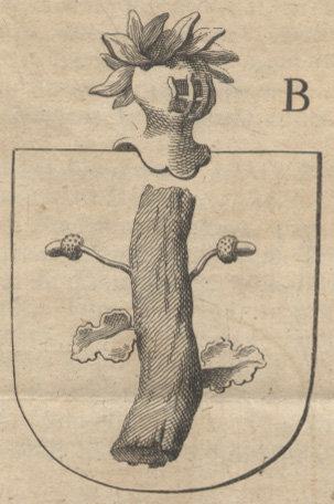 Coat of arms of the Rosenkilde family, published 1755 in Copenhagen.